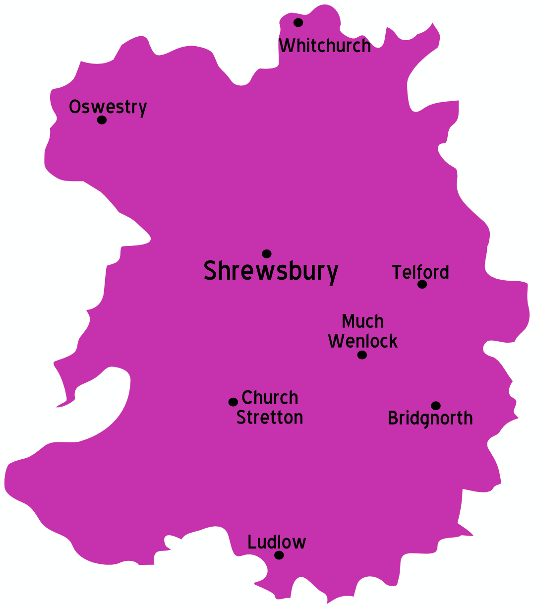 Map of Shropshire Source: :Image:UK map.svg map: United Kingdom Map of: United Kingdom